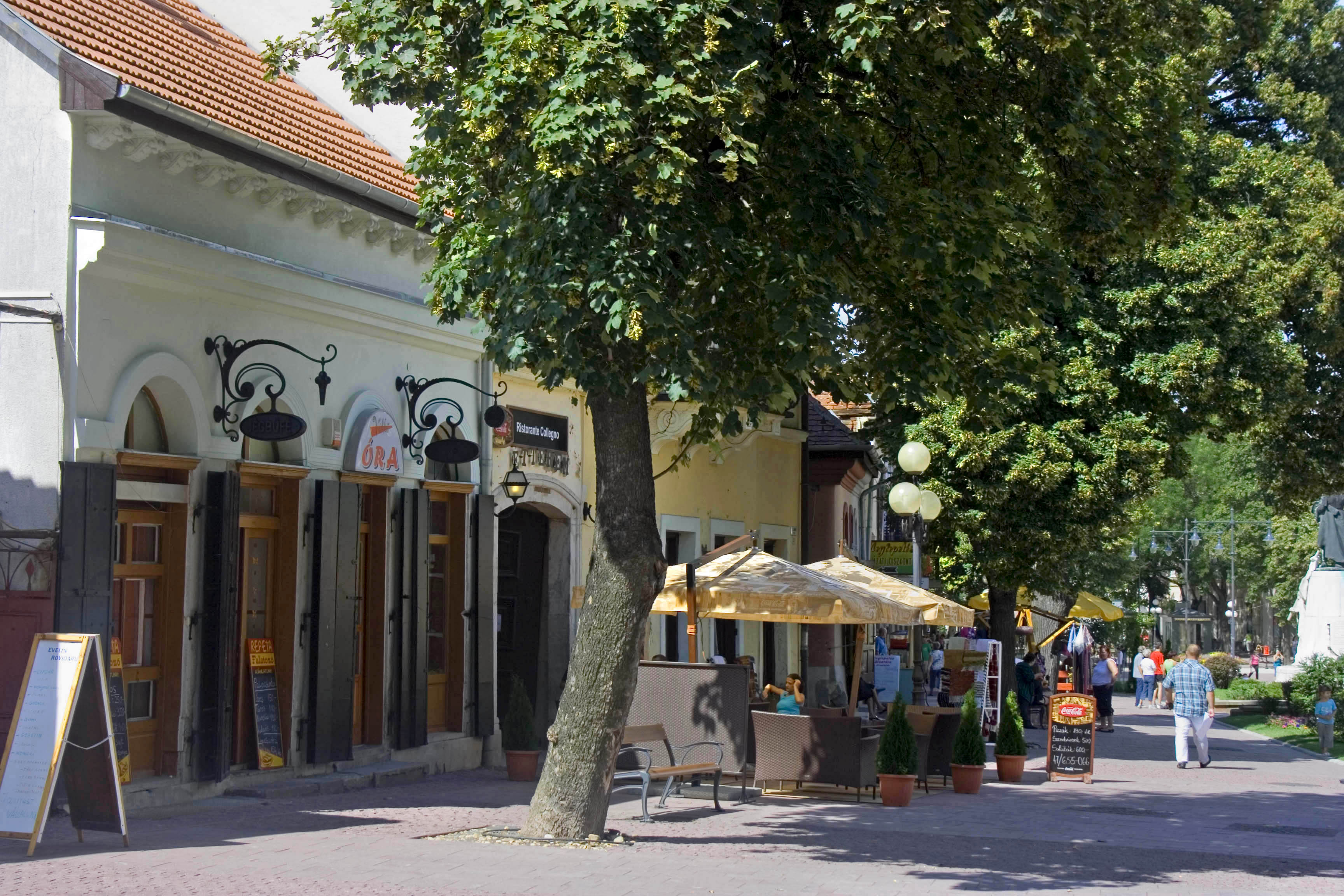 Hungary Sátoraljaújhely - Széchenyi Square - North